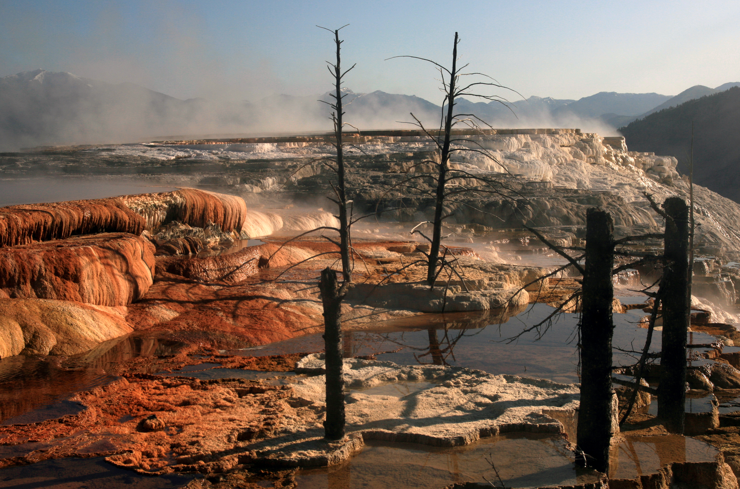 Mammoth Hot Springs terraces. Hot water is the creative force of the terraces.Even though Mammoth Hot Springs lie north of the caldera ring-fracture system, a fault trending north from Norris Geyser Basin, 21 miles (34 km) away, may connect Mammoth Hot Springs to the hot water of that system. A system of small fissures carries water upward to create approximately 50 hot springs in the Mammoth Hot Springs area. Another necessary ingredient for terrace growth is the mineral calcium carbonate. Thick layers of sedimentary limestone, deposited millions of years ago by vast seas, lie beneath the Mammoth area. As ground water seeps slowly downward and laterally, it comes in contact with hot gases charged with carbon dioxide rising from the magma chamber. Some carbon dioxide is readily dissolved in the hot water to form a weak carbonic acid solution. This hot, acidic solution dissolves great quantities of limestone as it works up through the rock layers to the surface hot springs. Once exposed to the open air, some of the carbon dioxide escapes from solution. As this happens, limestone can no longer remain in solution. A solid mineral reforms and is deposited as the travertine that forms the terraces.Dead trees in the terraces of Mammoth Hot Springs, Yellowstone National Park grew during inactivity of the mineral-rich springs, and were killed when calcium carbonate carried by spring water clogged the vascular systems of the trees.